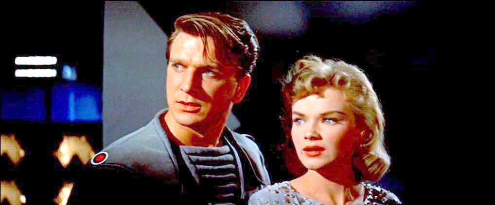 Screenshot of Leslie Nielsen and Anne Francis from the trailer for the film Forbidden Planet.